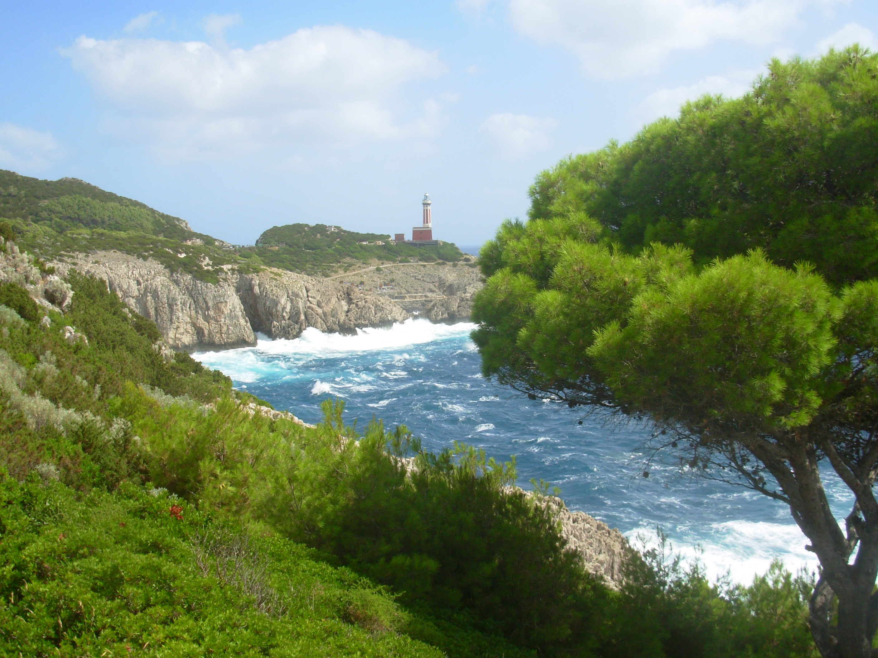 Punta Carena lighthouse from Capri forts' path